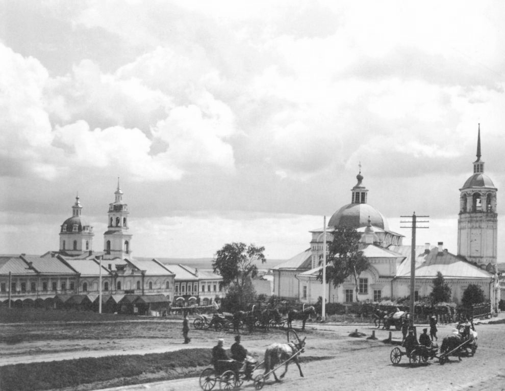 Old Vyatka